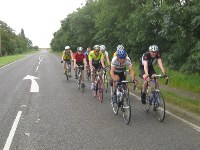 This photograph shows a group of cyclists riding a 200 km randonneuring event.